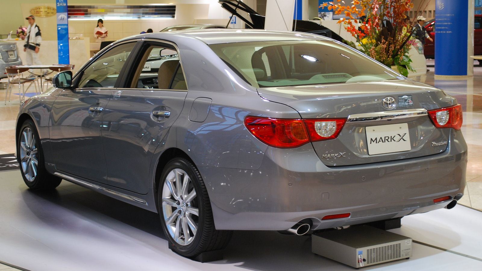 2nd Generation Toyota Mark X Premium type (2009/10 -)